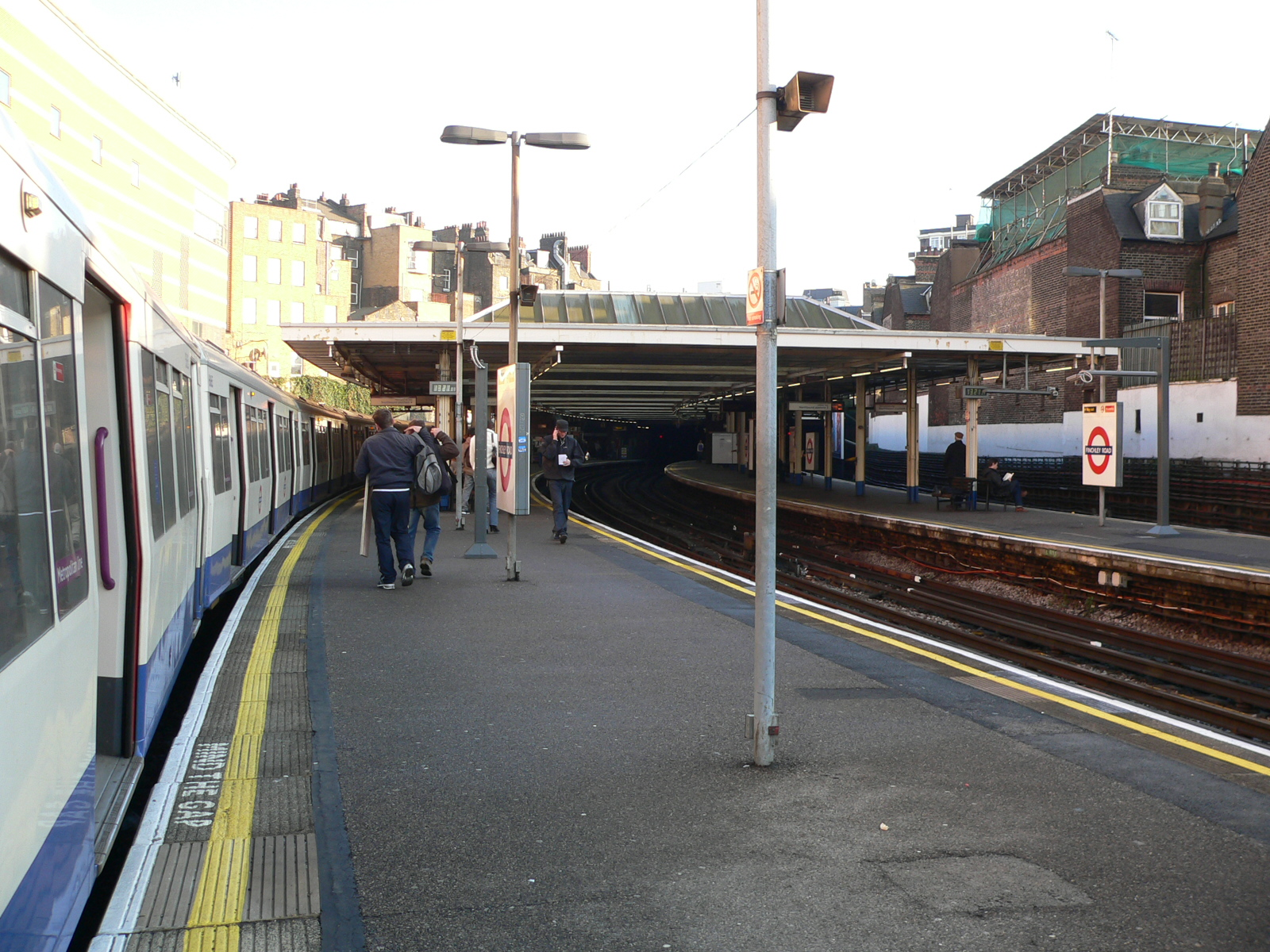 Finchley Road tube station is the southernmost station offering cross-plaform interchange between London Underground Jubilee and Metropolitan Line services. The train on the left is a southbound Metropolitan Line A60 stock EMU.